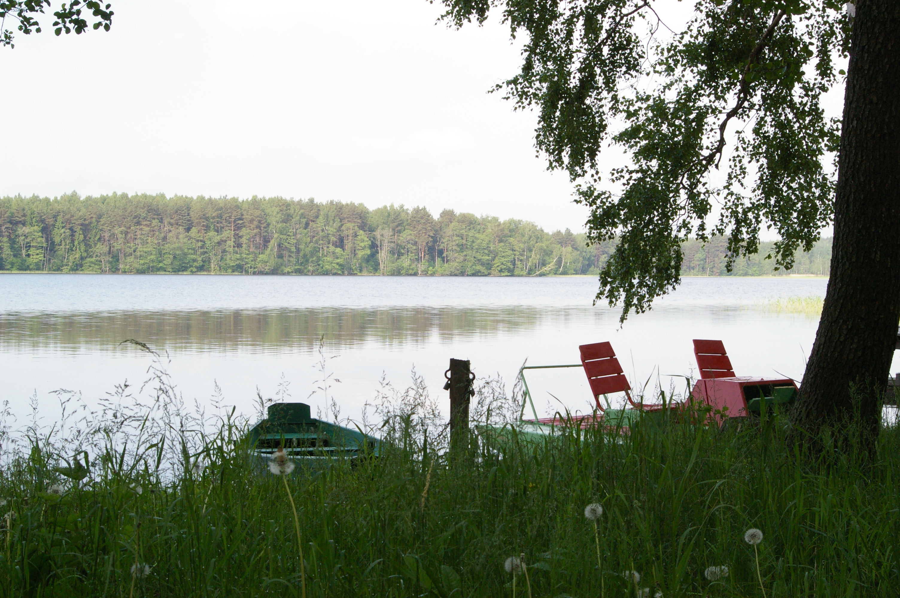 Lake Bebrusai in Molėtai district, Lithuania.